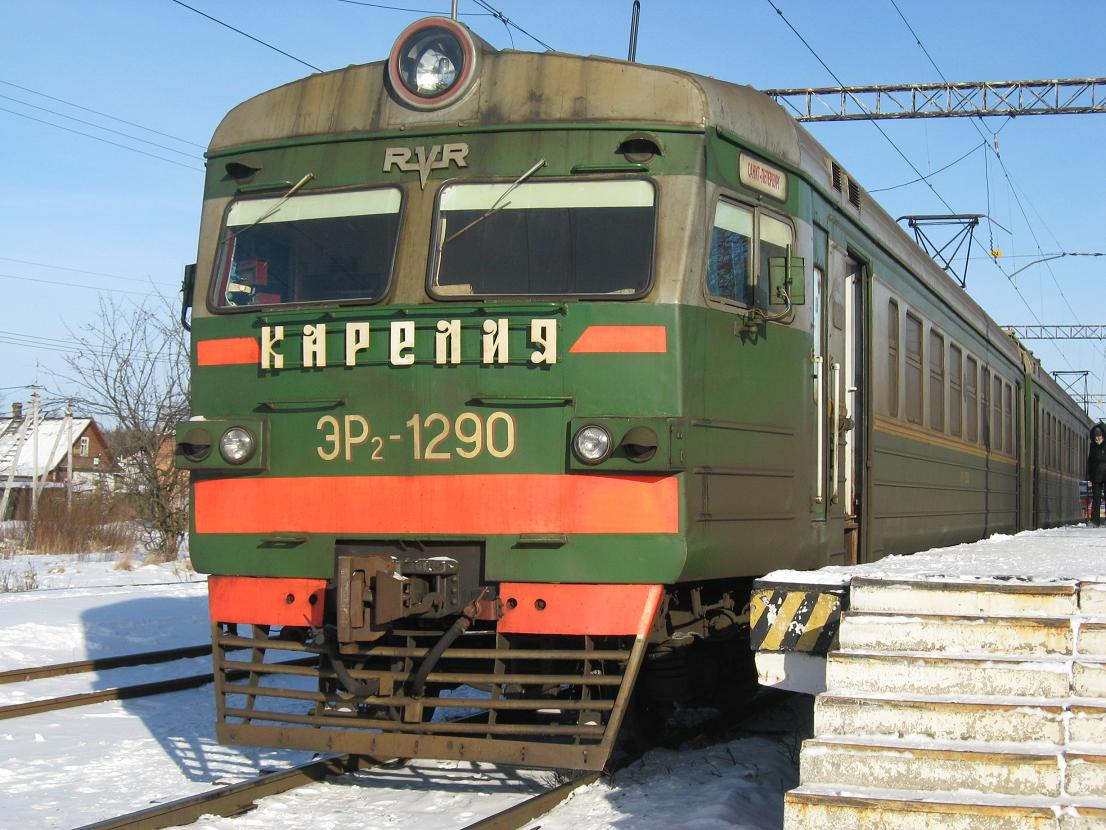 Electric multiple unit ER2-1290 "Karelia"